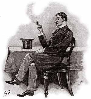 Illustration of "The Adventure of the Musgrave Ritual", which appeared in The Strand Magazine in May, 1893. Original caption was REGINALD MUSGRAVE